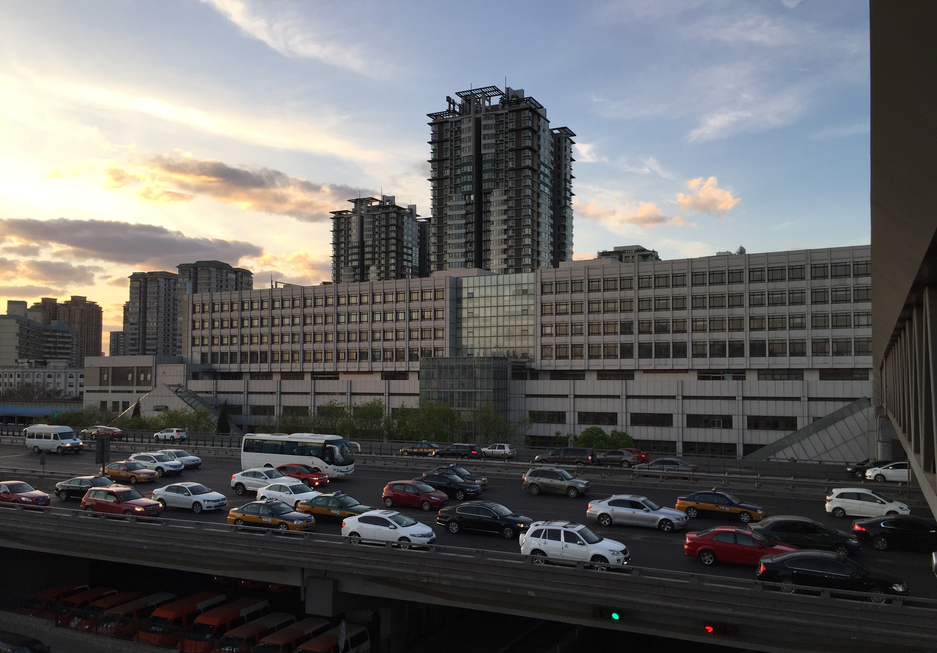 Sihui at a Saturday sunset...